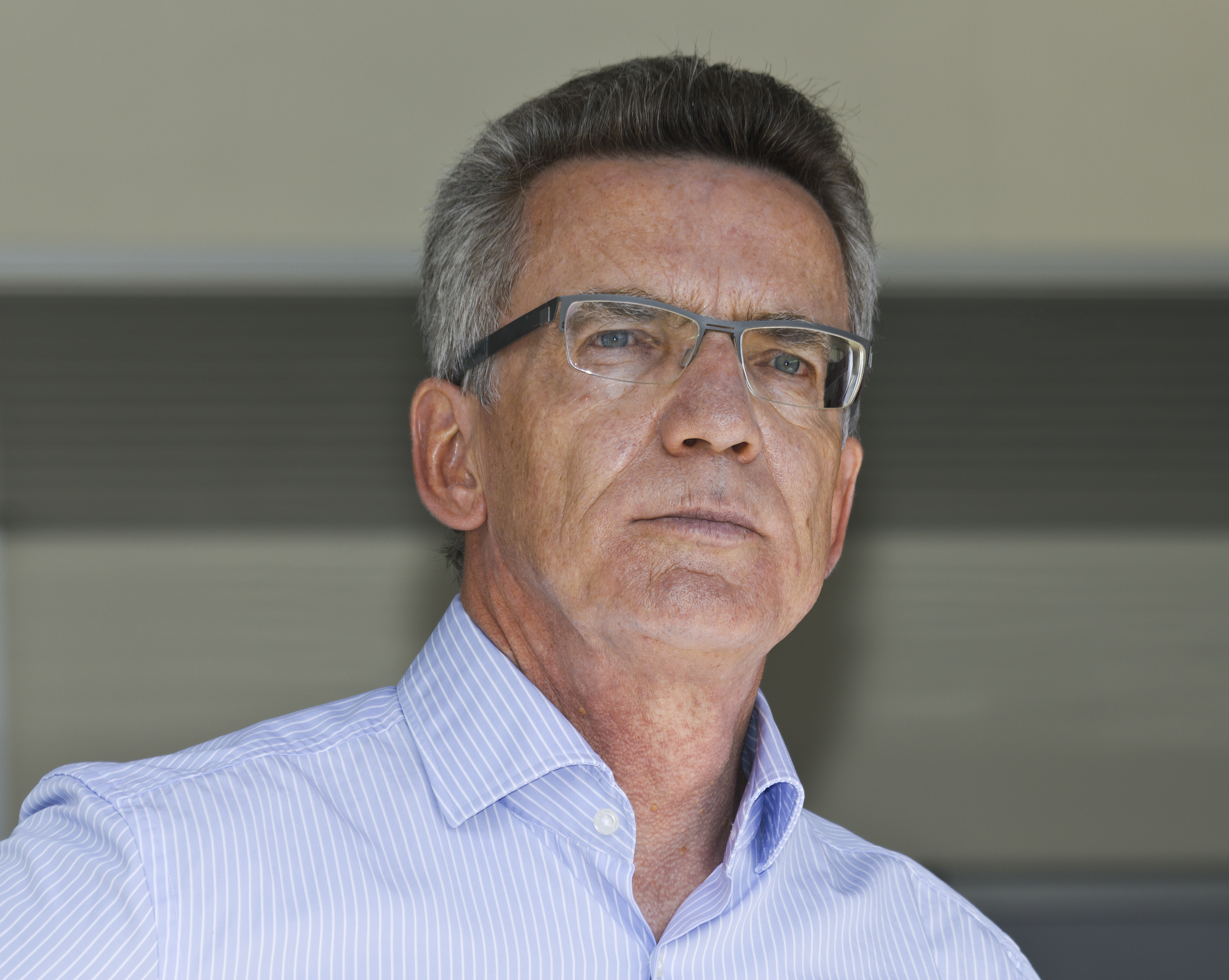 Thomas de Maizière, politician of Germany, defense minister of Merkel Governement